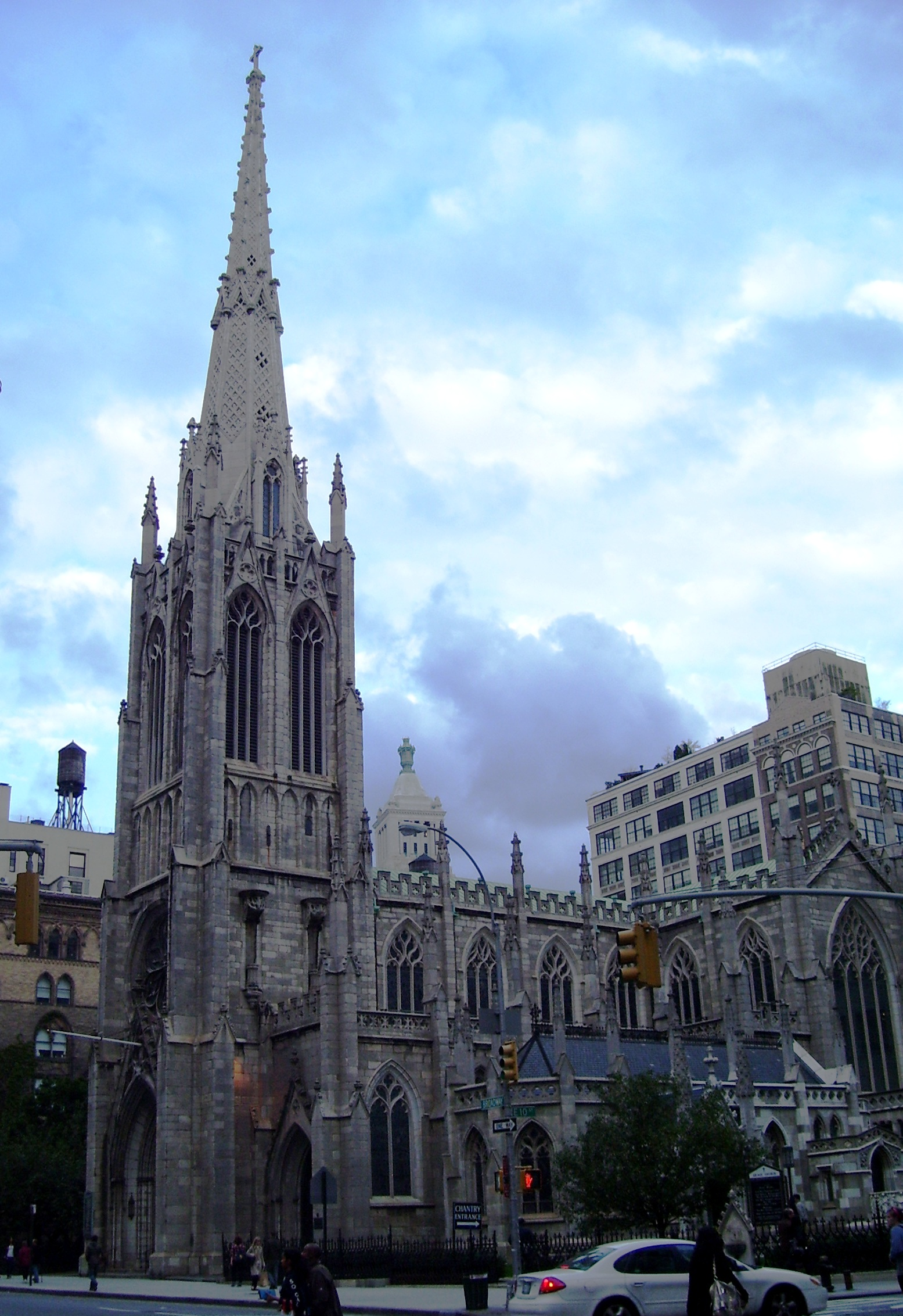 Grace Church (Episcopal) and Rectory, at Broadway and 10th Street in Greenwich Village near Astor Place in lower Manhattan, New York City. A Gothic Revival church designed by James Renwick Jr. (1843-1846), with outbuildings by Edward T. Potter (Chantry, 1878-1879), Heins & La Farge (chancel extension, 1903) and other alterations by William W. Renwick (1910). Front garden by Vaux & Co. (1881) (source:AIA Guide to NYC 4th ed.)